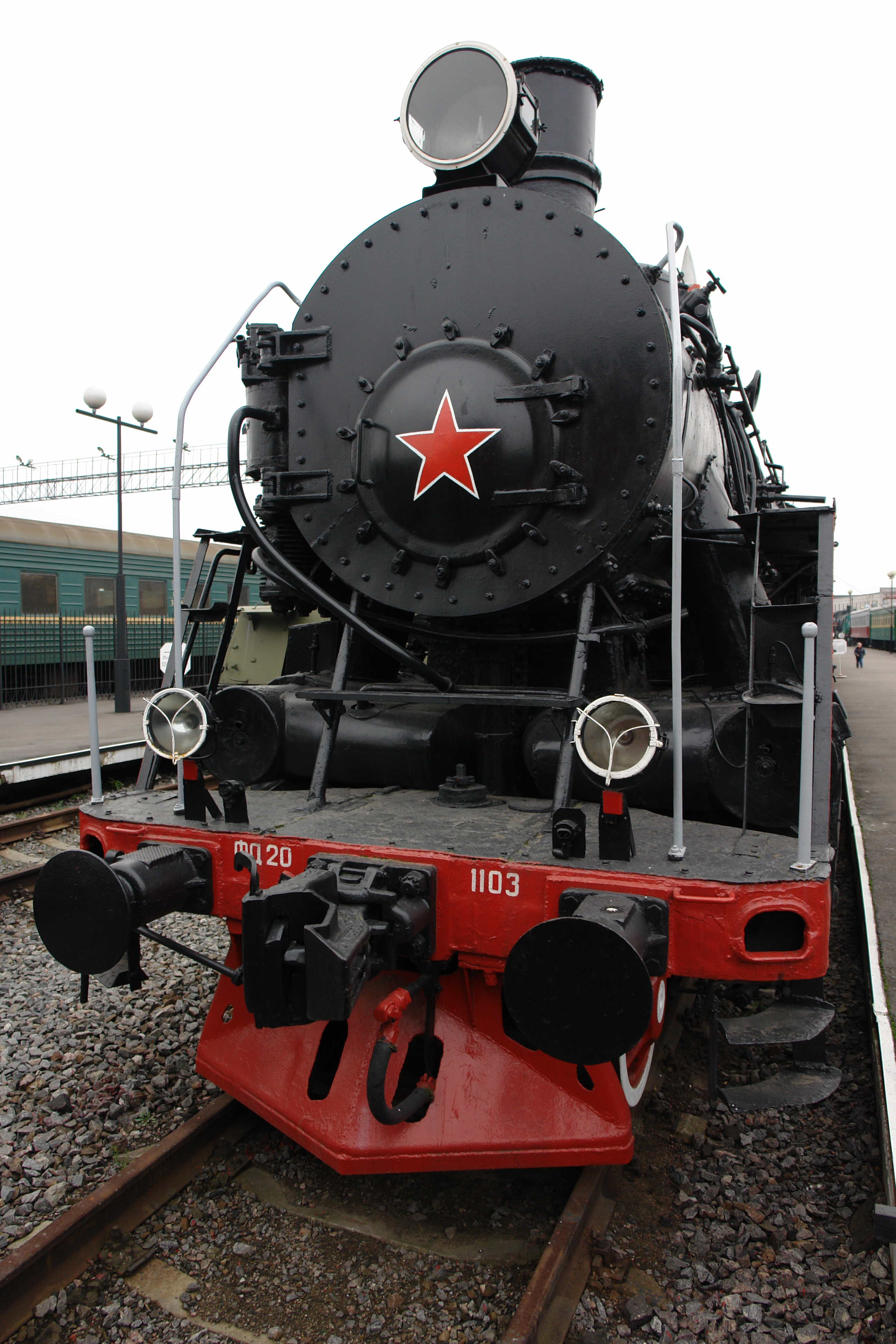 Freight steam locomotive FD20 1103 Weight in serviceable condition: excluding tender137 t. including tender235 t. Design speed85 km/h Maximum power on wheel rim3200 hp. The most powerful series-built steam freight locomotive in Russia (3200 hp.). Named after Felix E. Dzerzhinskiy, former chief of the secret police. The introduction of this class had marked the transition from European to American practice of designing locomotives in the USSR. Built by Voroshilovgrad Works in 1936.